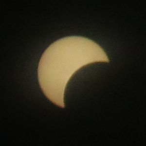 Partial Solar Eclipse 9 March 2016 from Nonthaburi, Thailand (00:51 UTC)